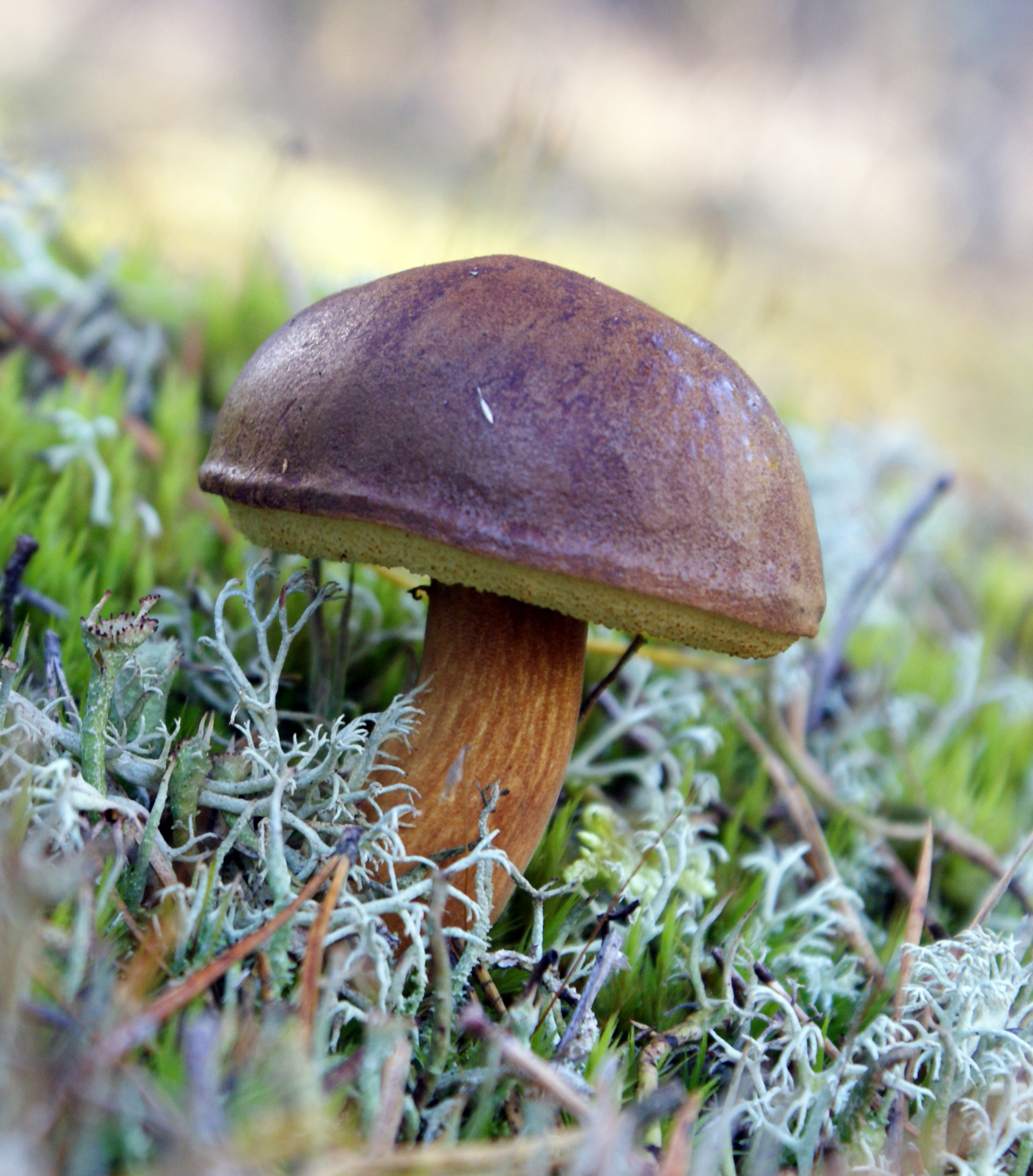 Xerocomus badius, Wda Landscape Park, Poland.